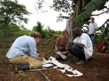 Image courtesy of the Department of Agronomy, Iowa State University. (